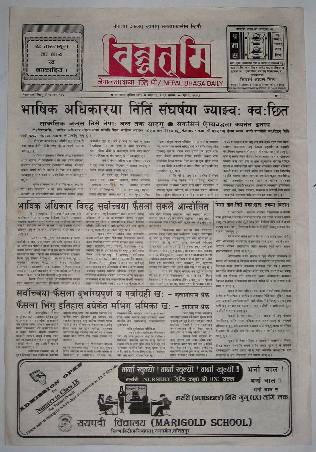 Front page of Nepal Bhasa daily newspaper "Biswabhumi" dated 2 June 1999 published from Kathmandu, Nepal.